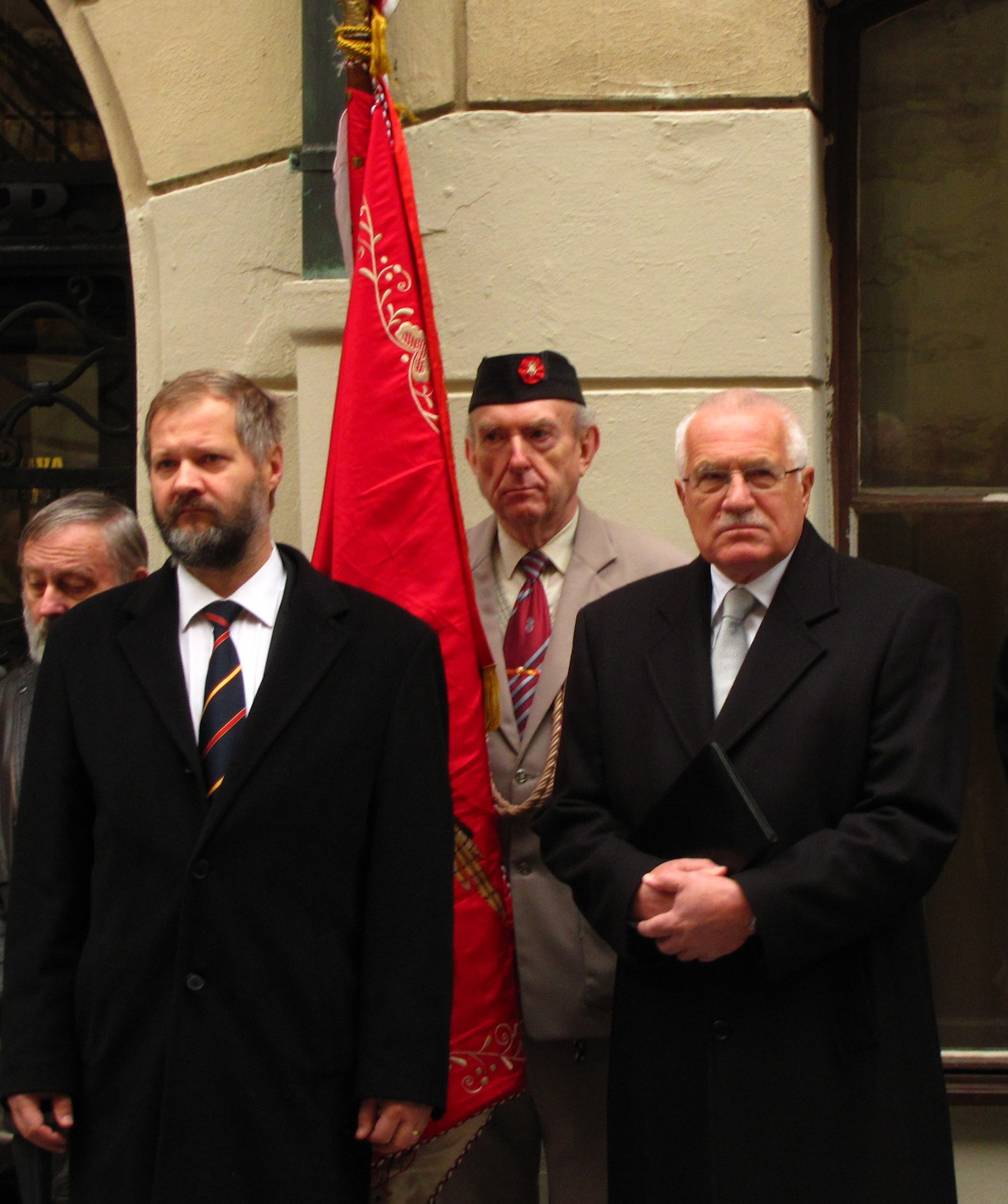 Václav Klaus, President of the Czech Republic (right) and Václav Hampl, Rector of Charles University in Prague (left)